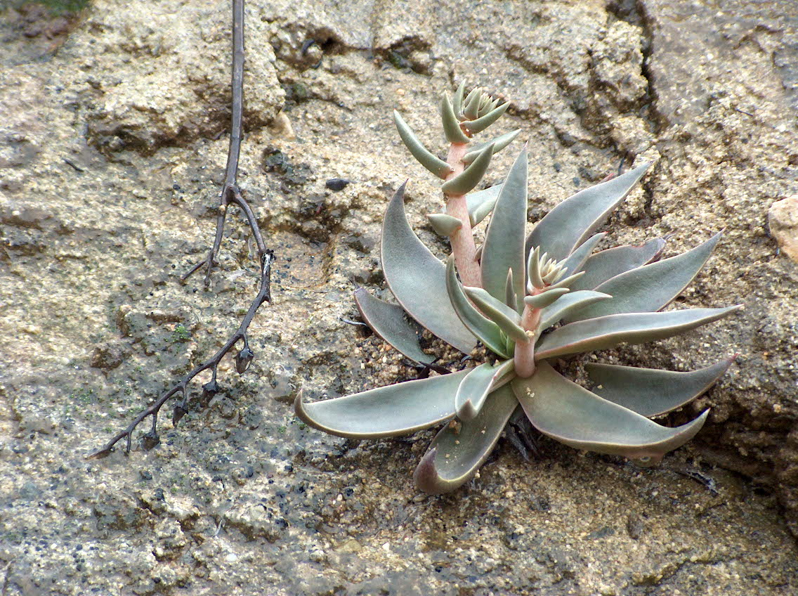 Dudleya lanceolata — lanceleaf liveforever; rosette and inflorescence. On the Calabasas Peak Trail, Santa Monica Mountains. Santa Monica Mountains National Recreation Area, Los Angeles County, California.